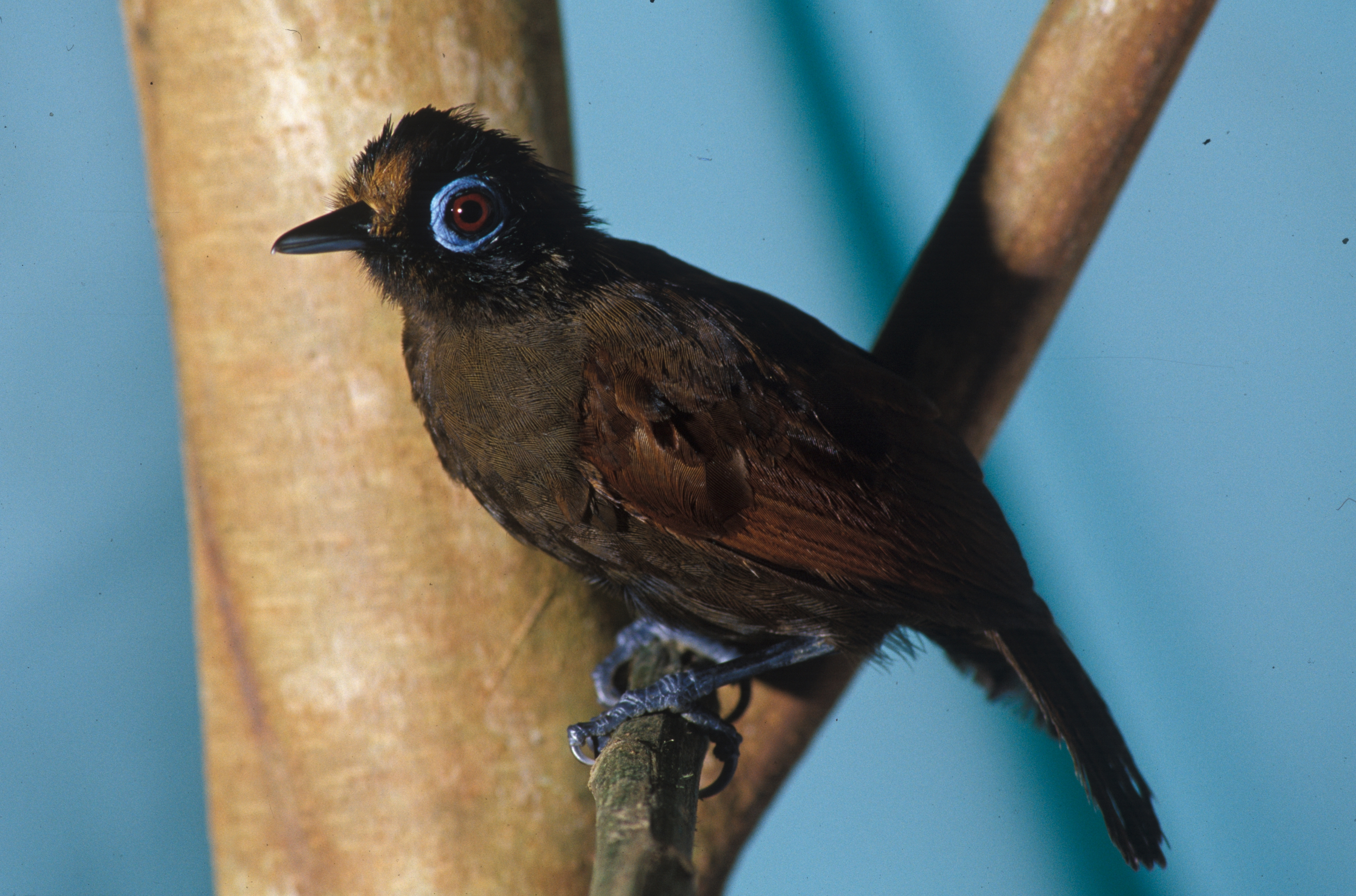 Hairy-crested Antbird (Rhegmatorhina melanosticta) from the NBII Image Gallery. A male photographed in Cordillera del Cóndor, Ecuador.